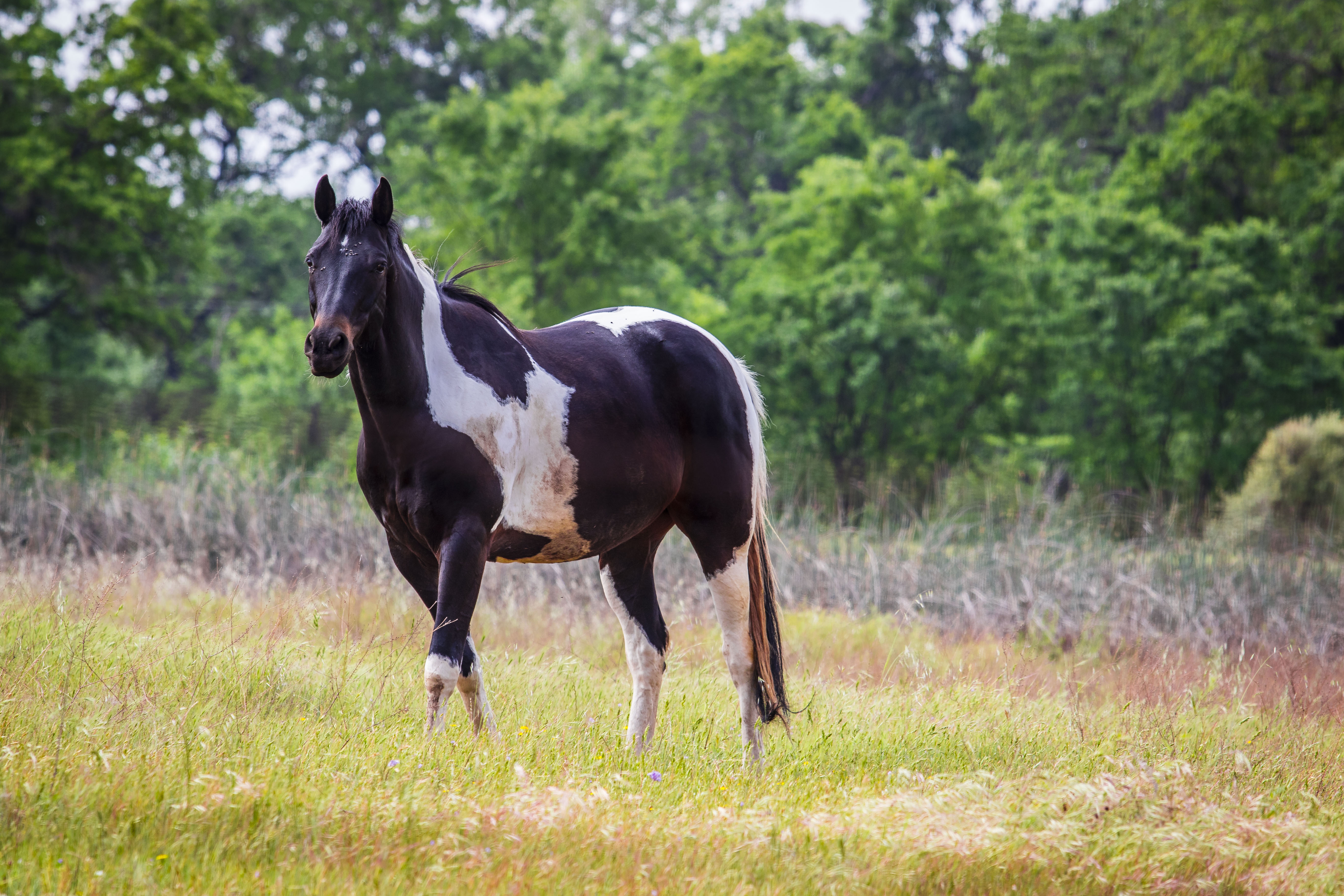 The Country